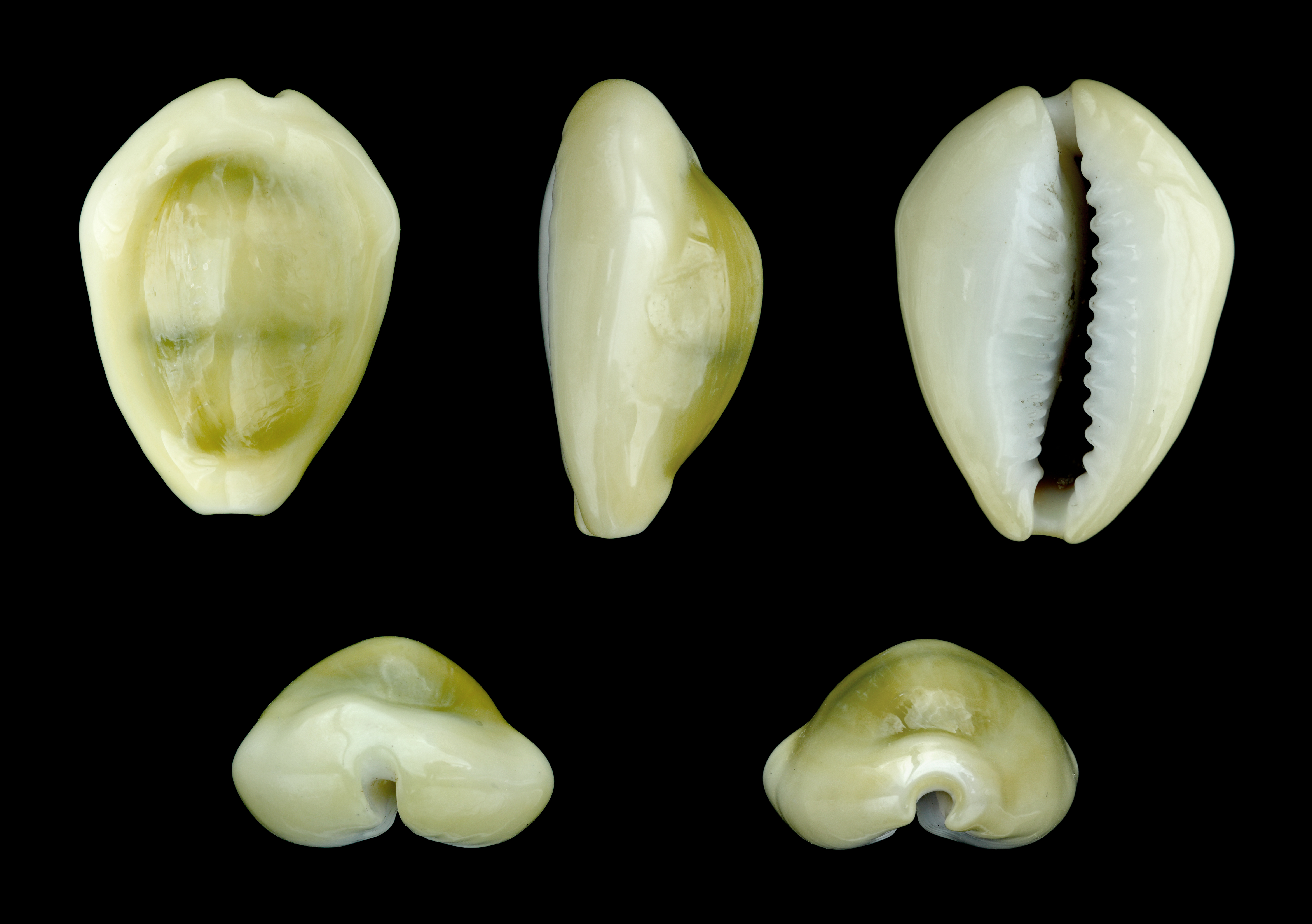 Money Cowry; Length 2.6 cm; Originating from Palou Tello, Batu Islands, Indonesia; Shell of own collection, therefore not geocoded. Dorsal, lateral (right side), ventral, back, and front view.